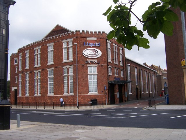 Ex Drill Hall - Portsmouth This handsome building used to be a Drill Hall, it has been converted into yet another Drinking Club.It used to be called The Connaught Drill Hall.